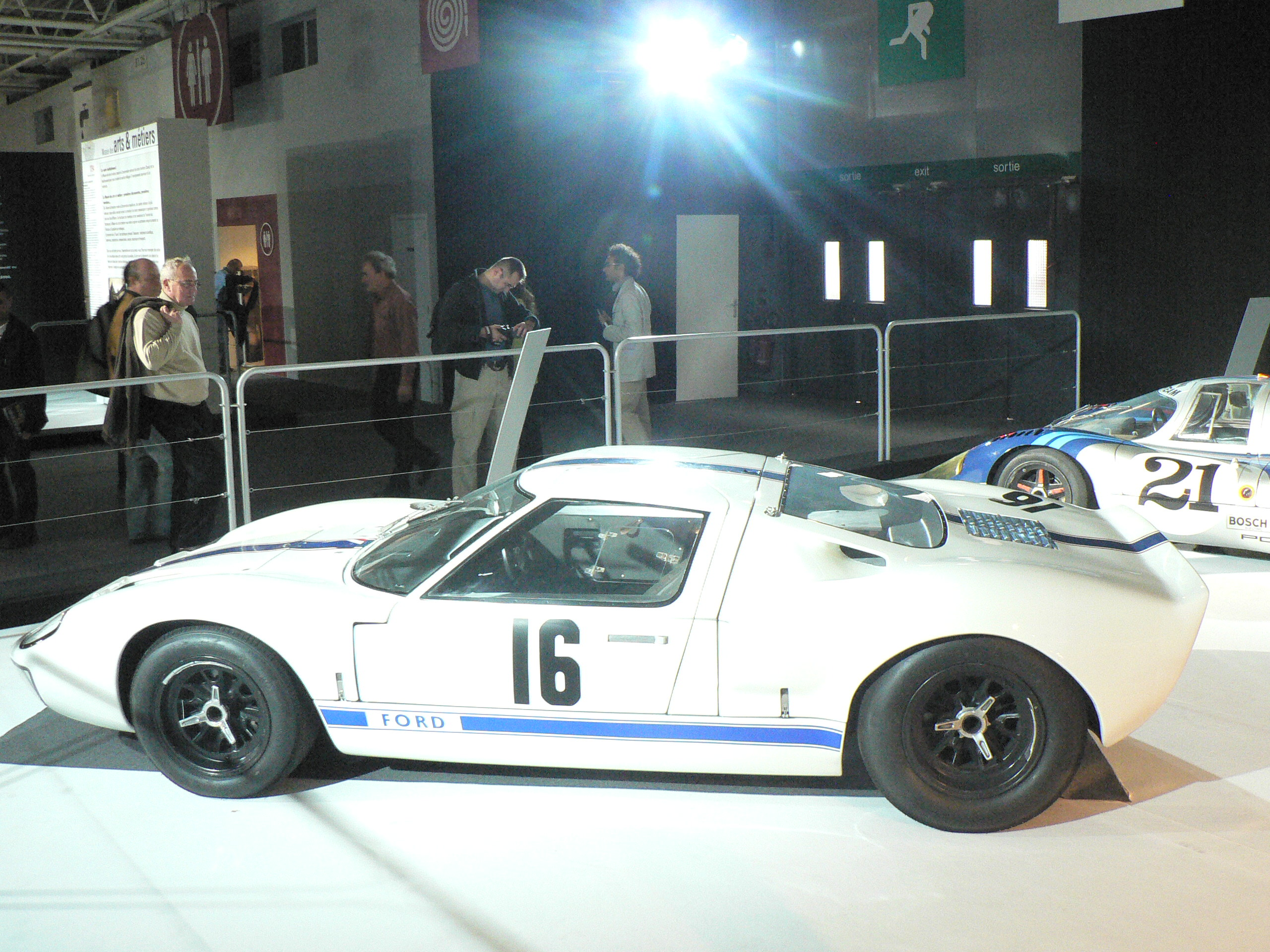 Mondial de l'automobile de Paris (October 2006).Ford GT40 chassis P/1020. "N°16" was its number for the 1967 24 Hours of Le Mans, where it did not finish (drivers: Greder/Dumay). As "n°68", it won the 1967 Coupe de Paris at the Montlhery racing circuit (with Jo Schlesser as driver).